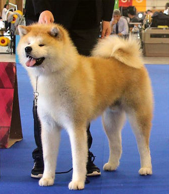 Akita inu in a dog show